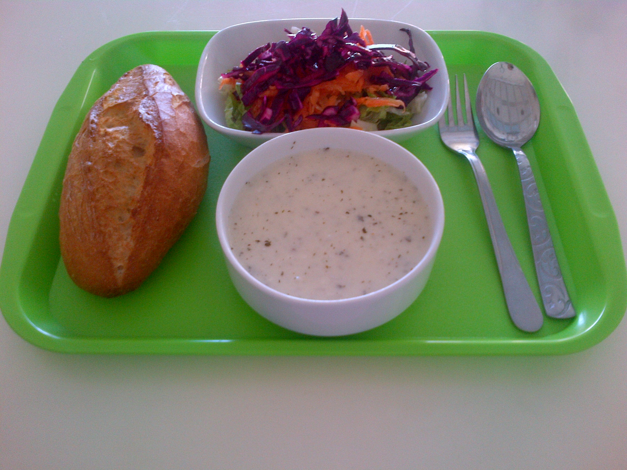 A school menu with "yayla" soup, small "mevsim" salad and individual "francala" (typical Turkish bread) in Turkey. Main dish and dessert come later.